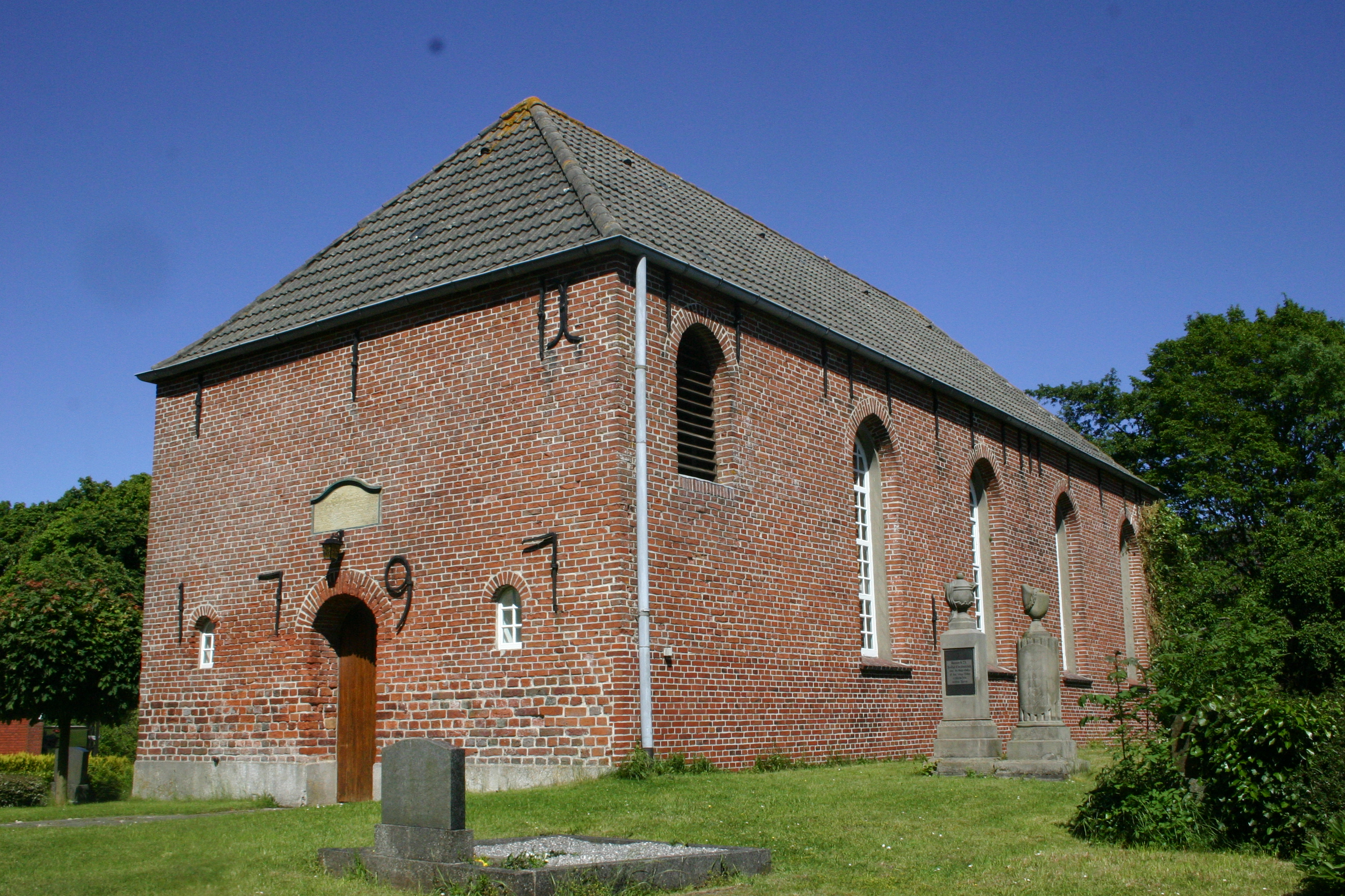 Historic church in Jarßum, city of Emden, East Frisia, Germany